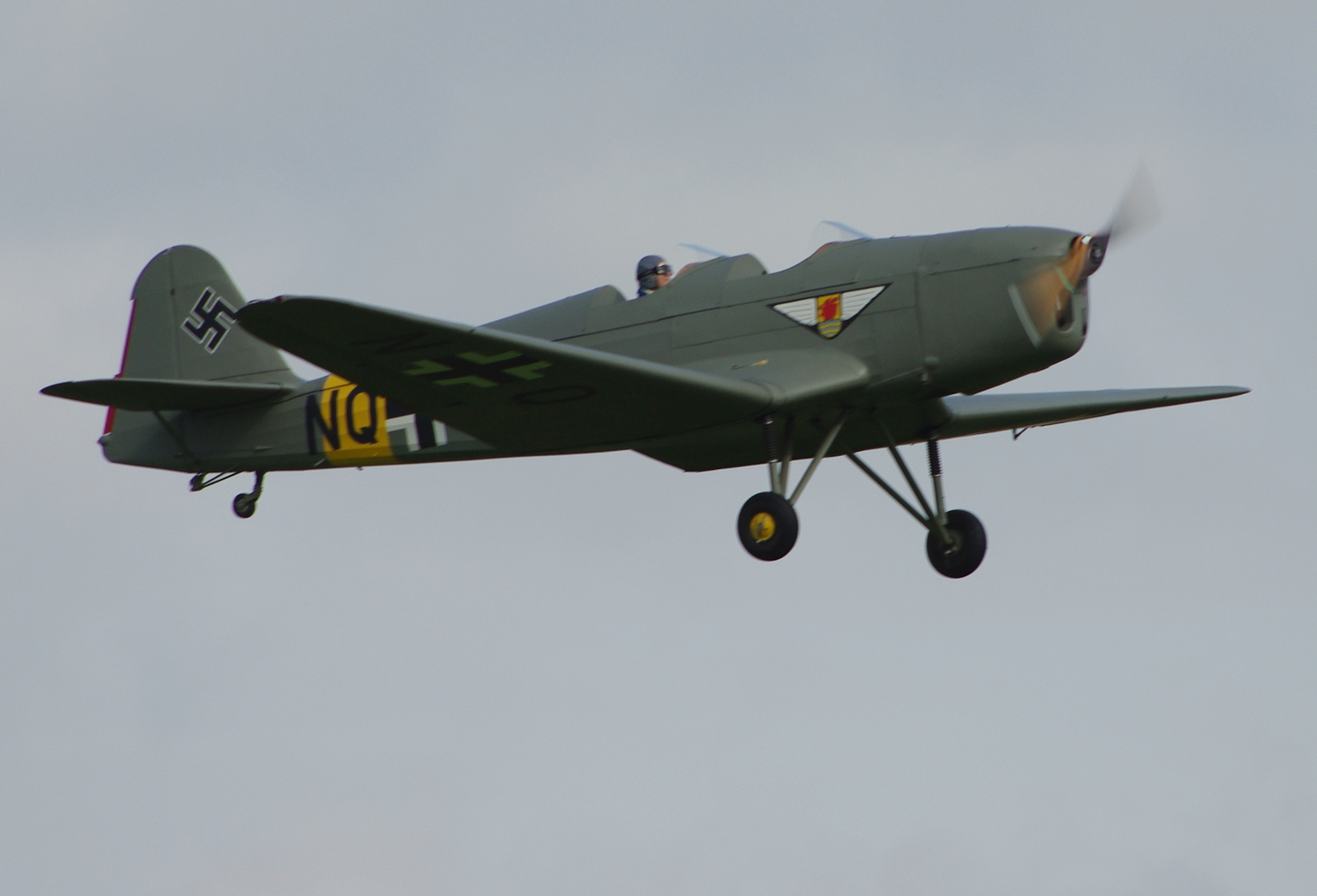 Klemm Kl.35D G-KLEM at Old Warden, 7 September 2008